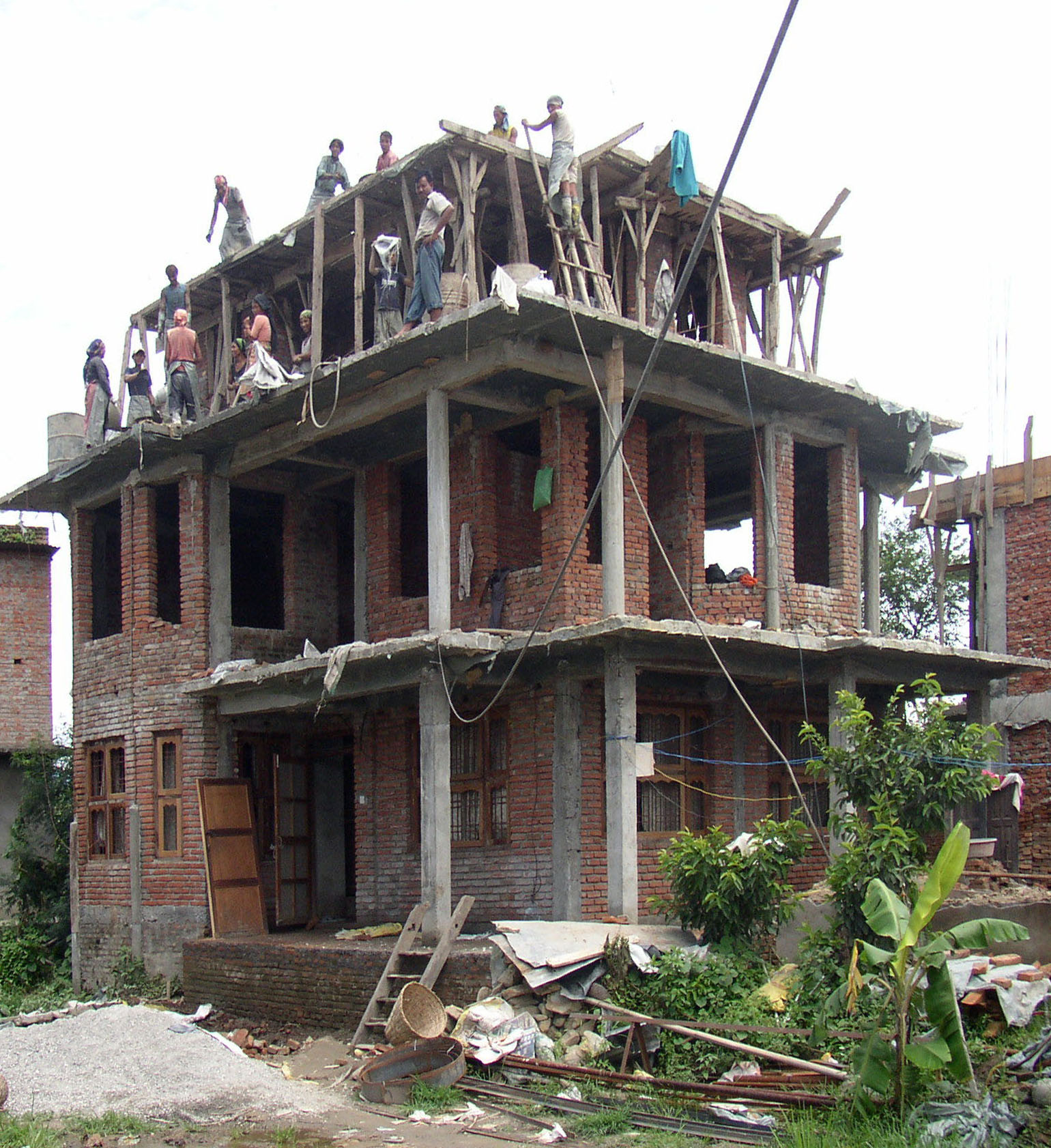 Construction of a new house nearby the street between Kathmandu and Bhaktapur